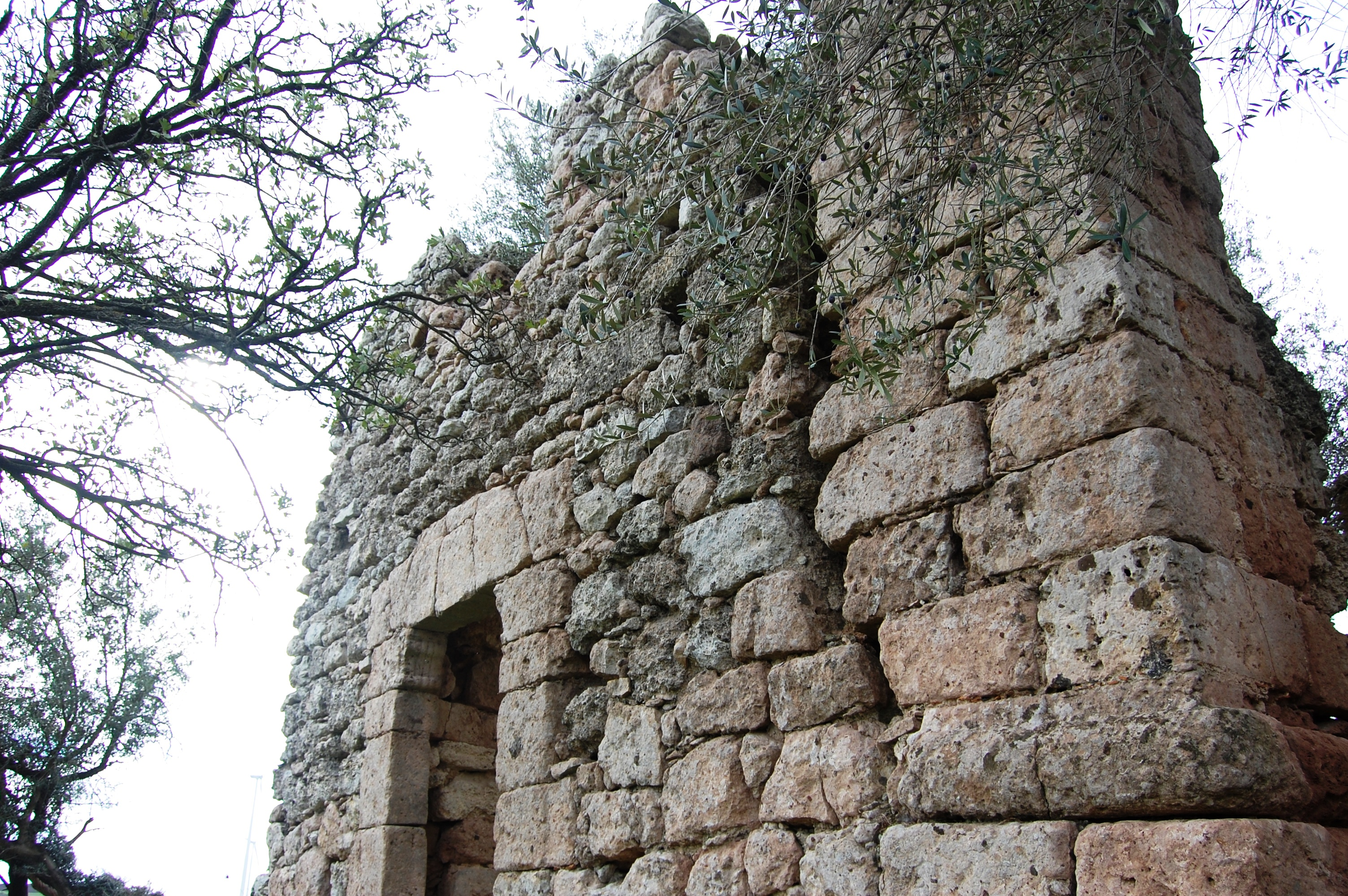 Church of the Agostinian Old Convent